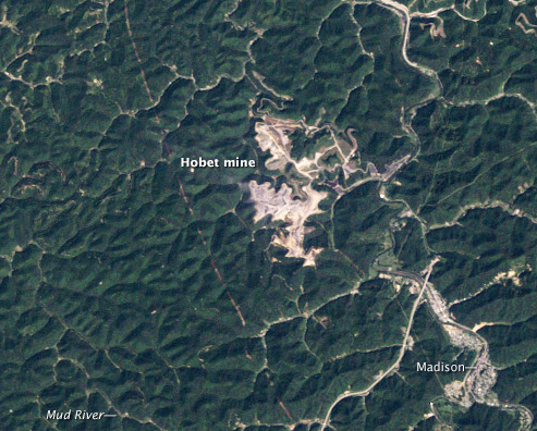 This image of a surface mine in Boone County, West Virginia from 1984. Below the densely forested slopes of southern West Virginia’s Appalachian Mountains is a layer cake of thin coal seams. To uncover this coal profitably, mining companies engineer large—sometimes very large—surface mines. Based on data from NASA’s Landsat 5 satellite, this natural-color (photo-like) image document the Hobet mine in 1984. The natural landscape of the area is dark green, forested mountains, creased by streams and indented by hollows. The active mining areas appear off-white, while areas being reclaimed with vegetation appear light green. A pipeline roughly bisects the images from north to south. The town of Madison, lower right, lies along the banks of the Coal River.